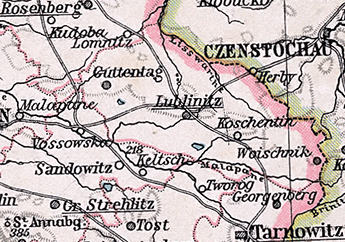 Detail from a map of Silesia.